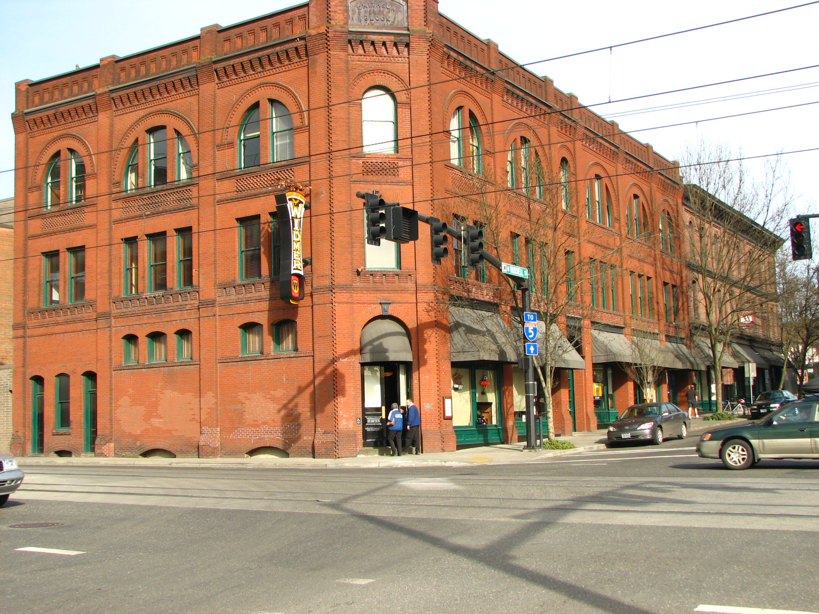 The Smithson and McKay Brothers Blocks, located at 921–949 North Russell Street, Portland, Oregon, United States, are jointly listed on the US National Register of Historic Places.